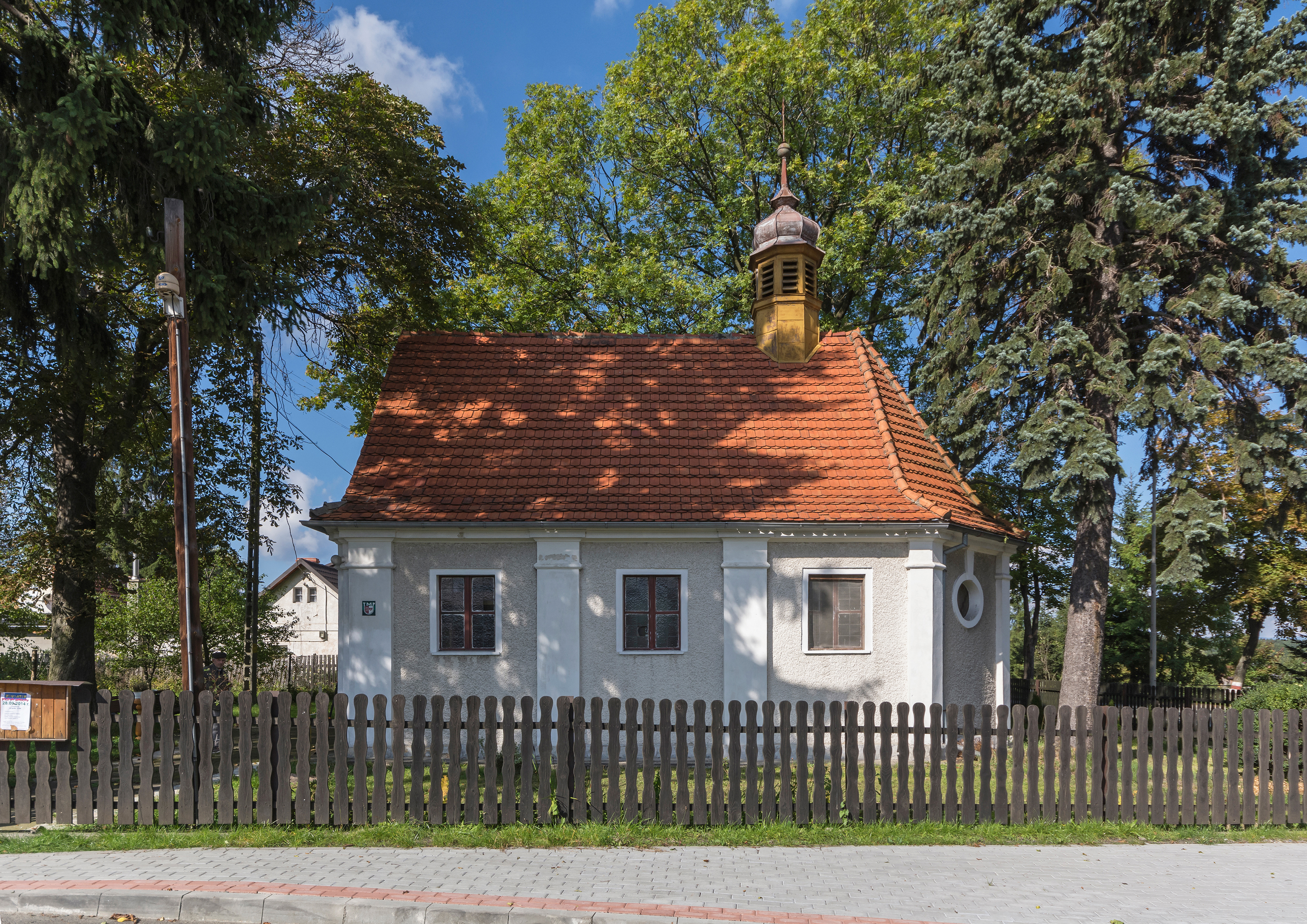 Chapel of St. Anthony in Nowy Wielisław